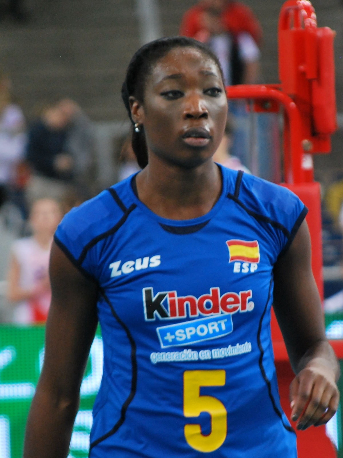 FIVB World Championship European Qualification Women Łódź January 2014. Milagros Collar - volleyball player from Spain